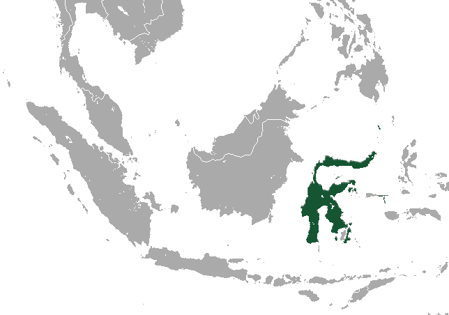 Sulawesi Rousette (Rousettus celebensis) range